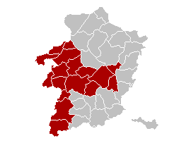 Map of Hasselt District in province of Limburg, Belgium.